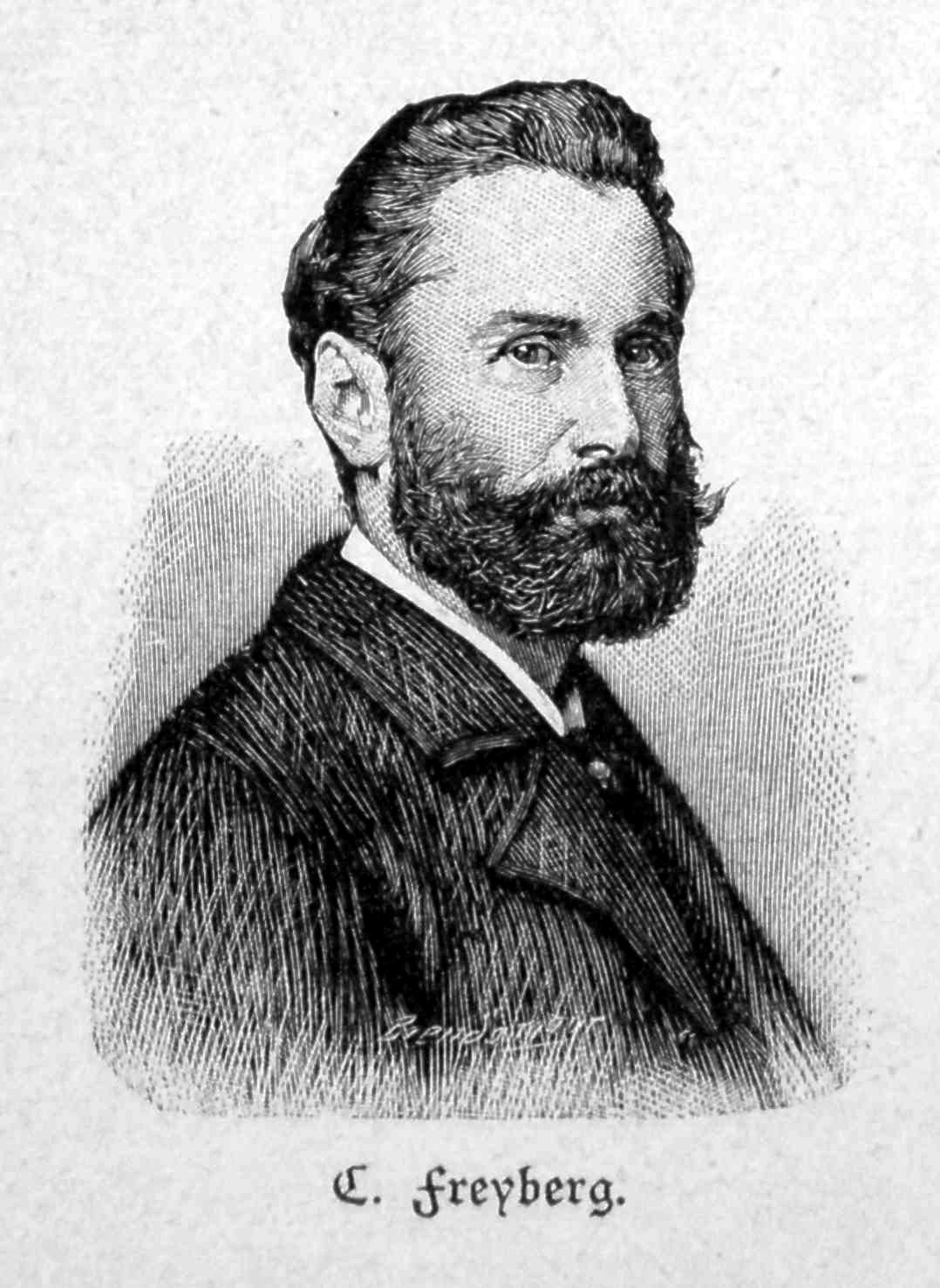 Conrad Freyberg